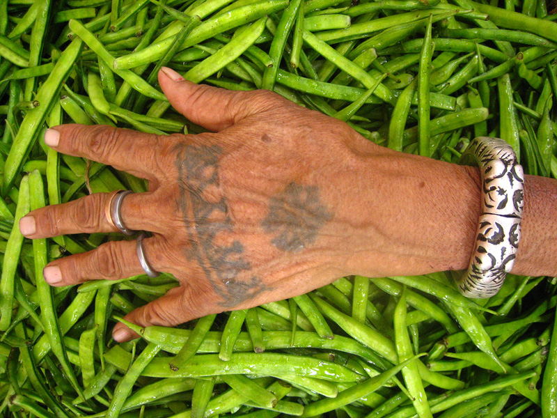 A tribal hand tattoo in a market in Jaipur, India.